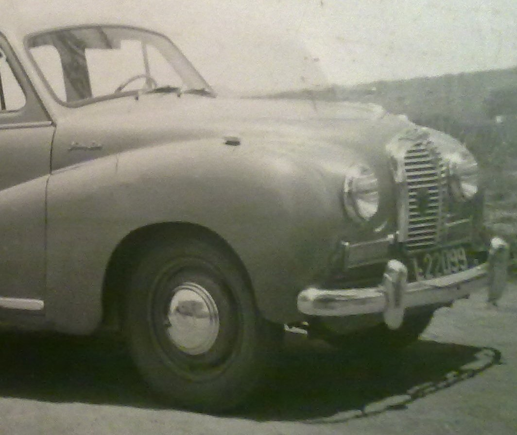 An angolan license plate in 1949.